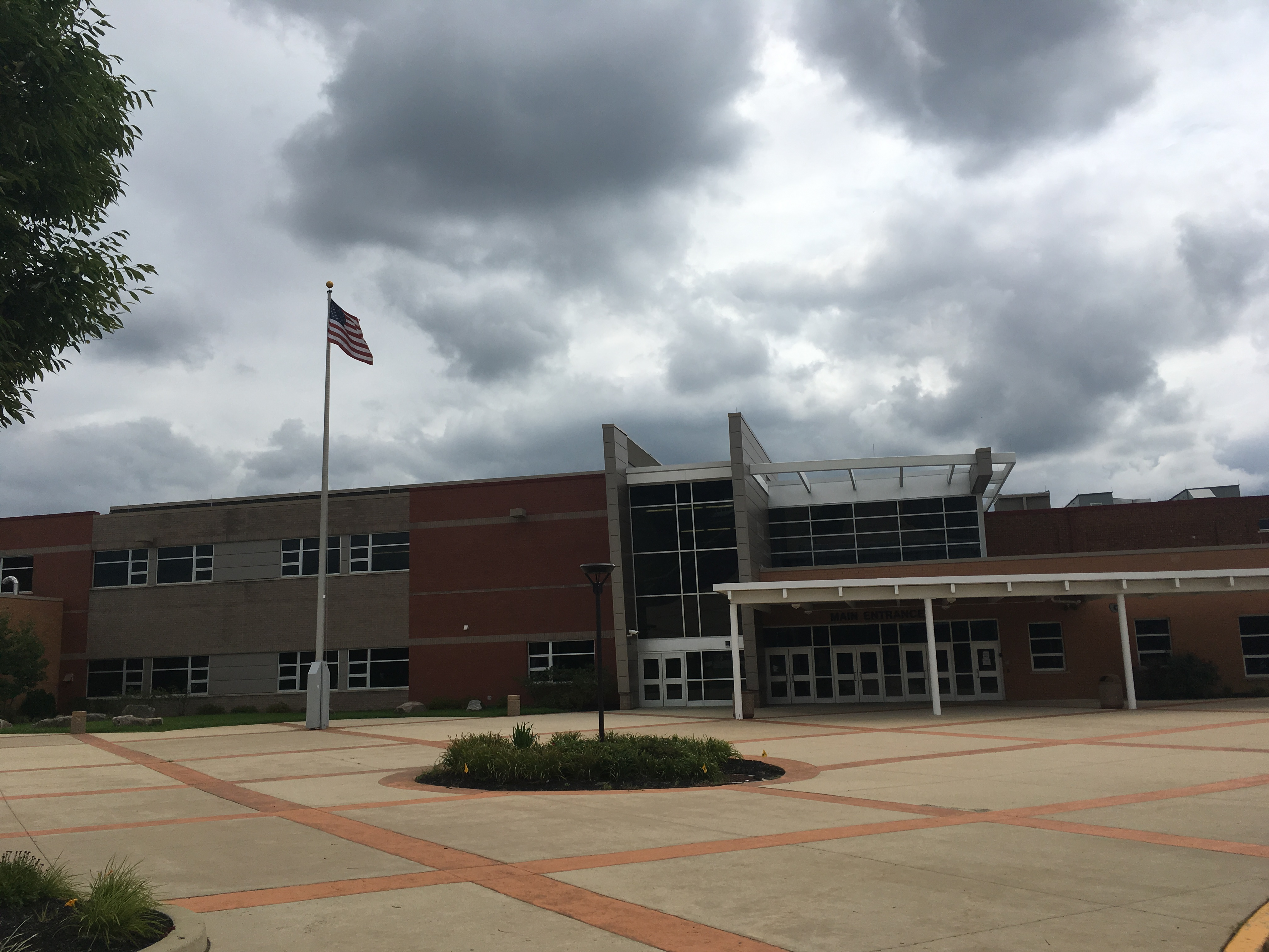 The entrance to William Tennent High School in Warminster Township, Pennsylvania